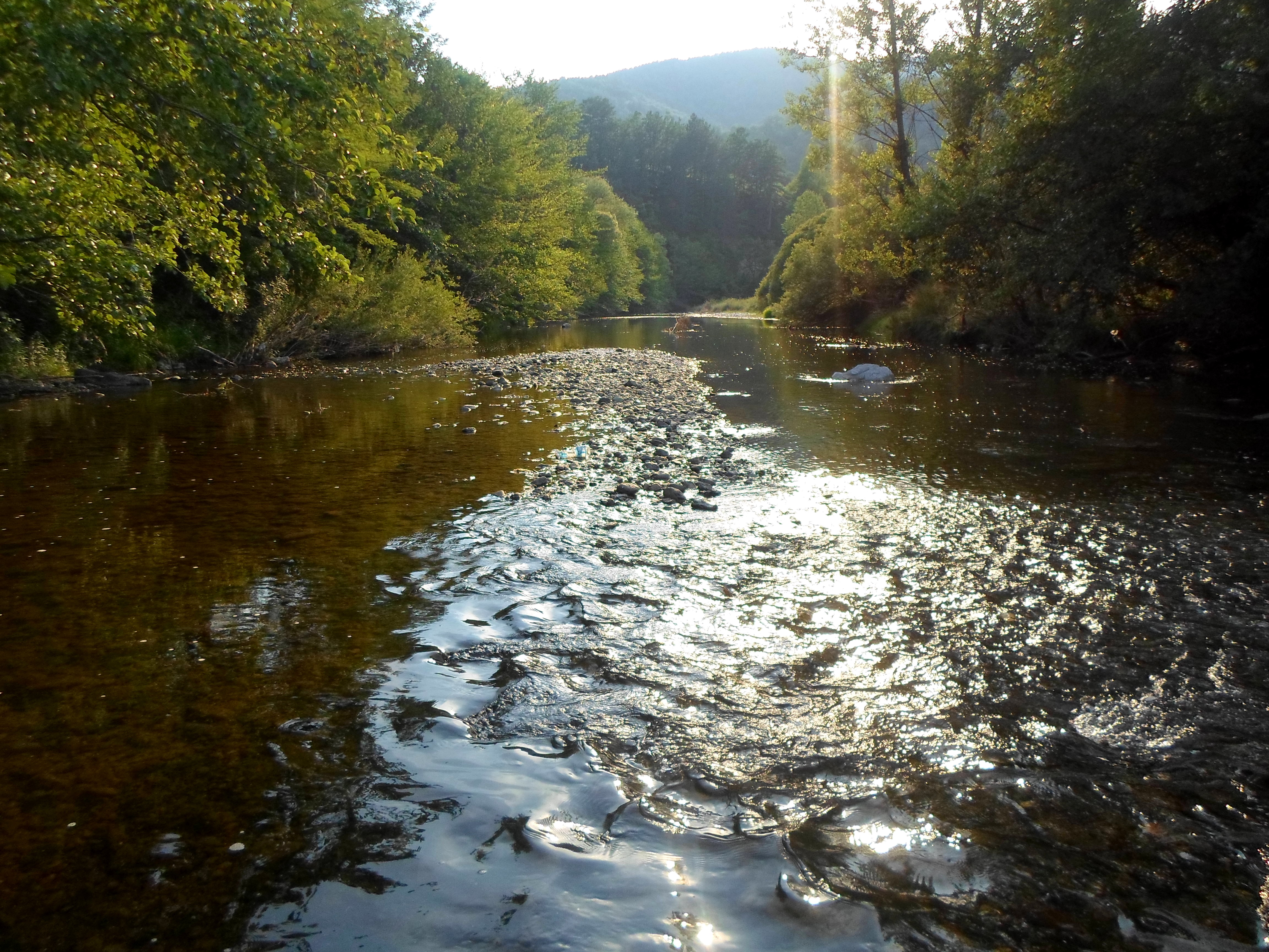 Park of nature Dobrun - Rzav This image was uploaded as part of Trace of Soul 2015.